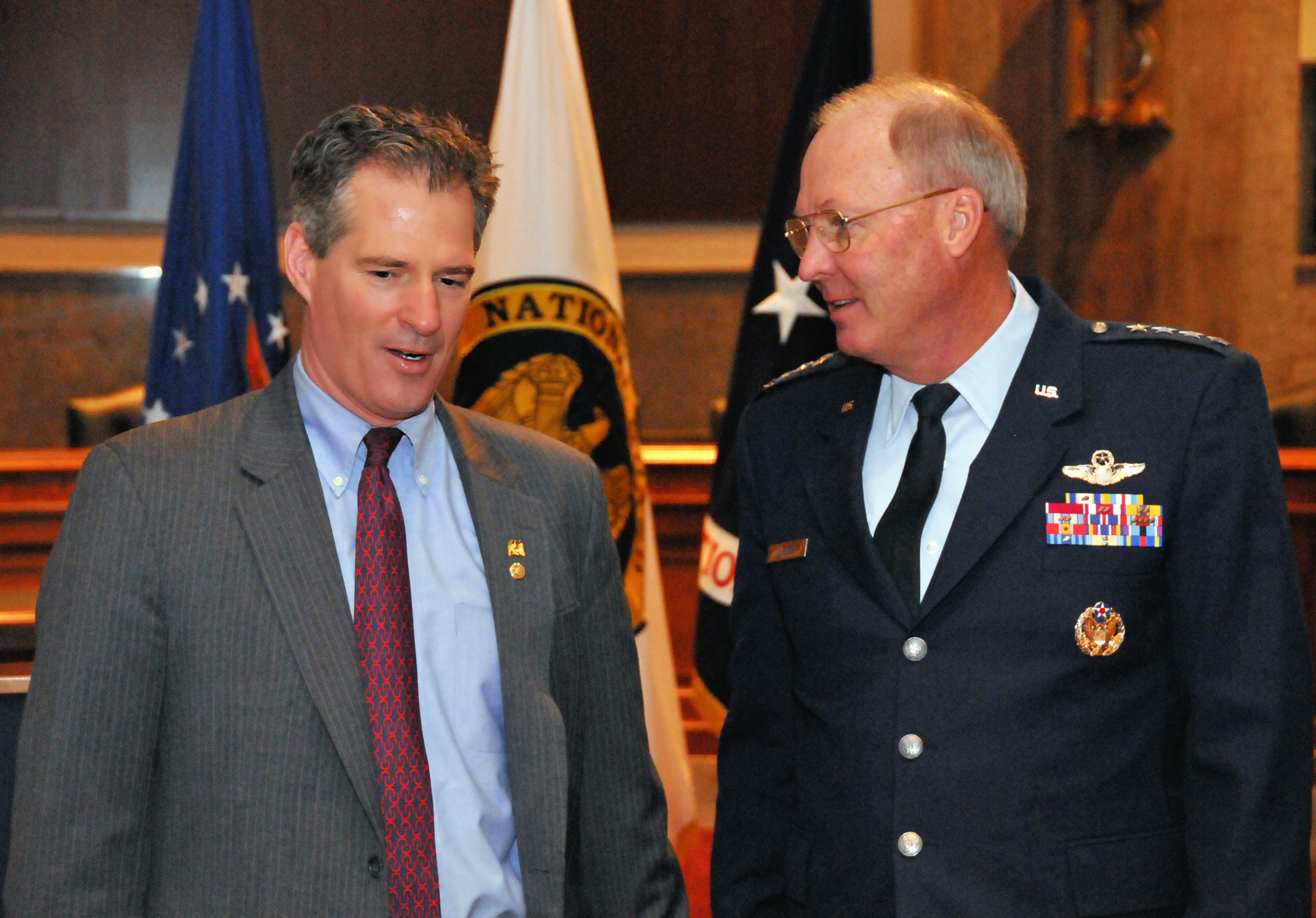 Air Force Gen.